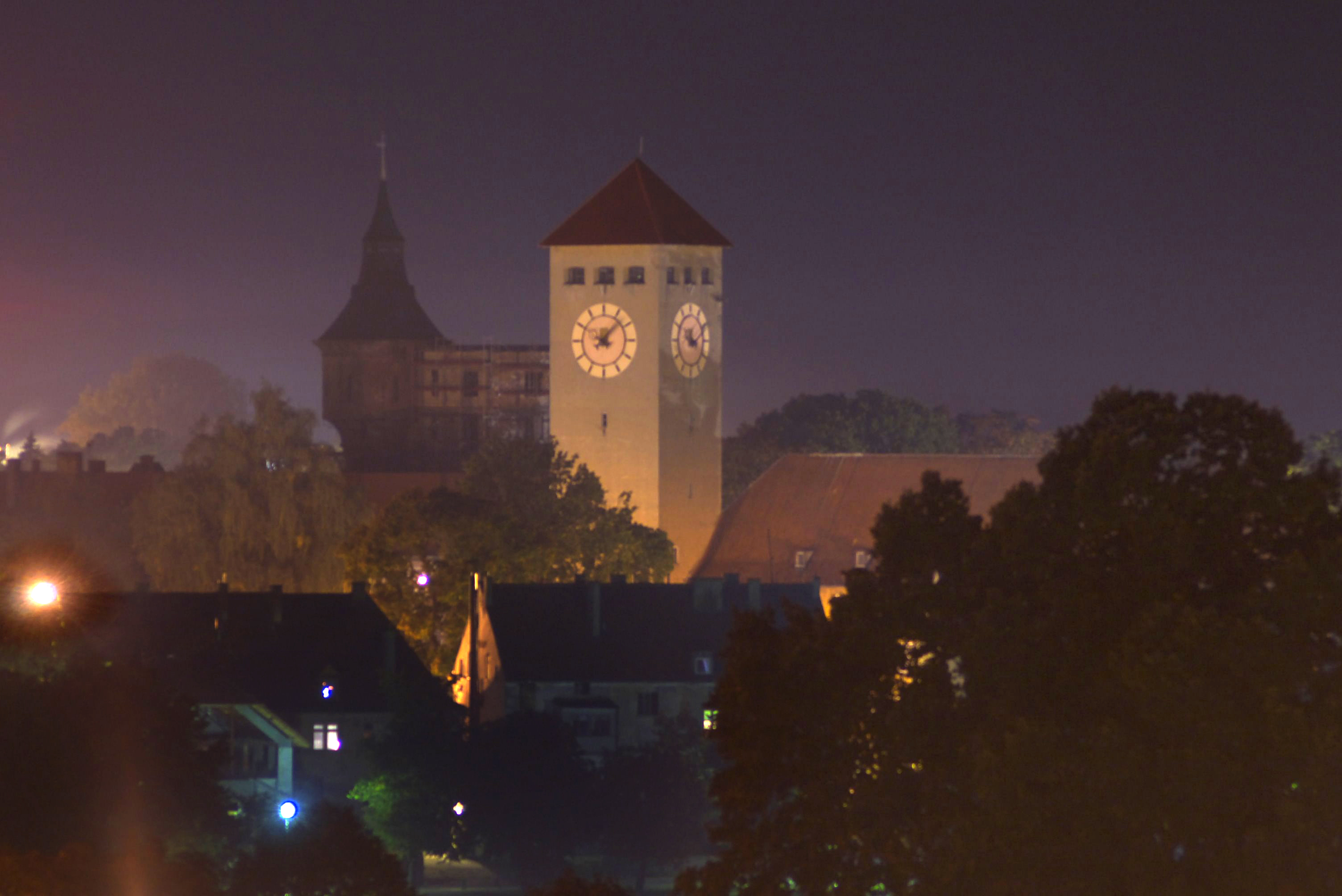 Town Hall in Szczytno /Poland/